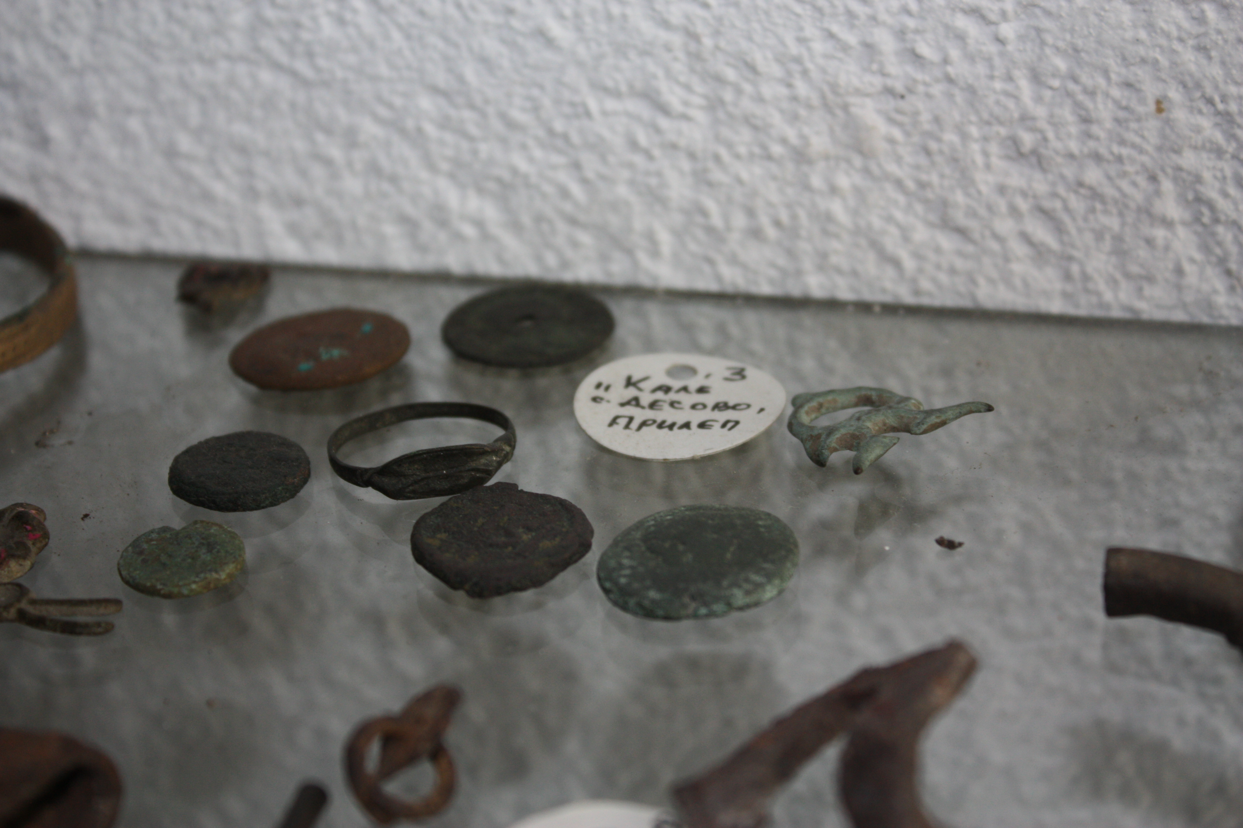 The World’s Smallest Ethnological Museum in Džepčište near Tetovo in Macedonia